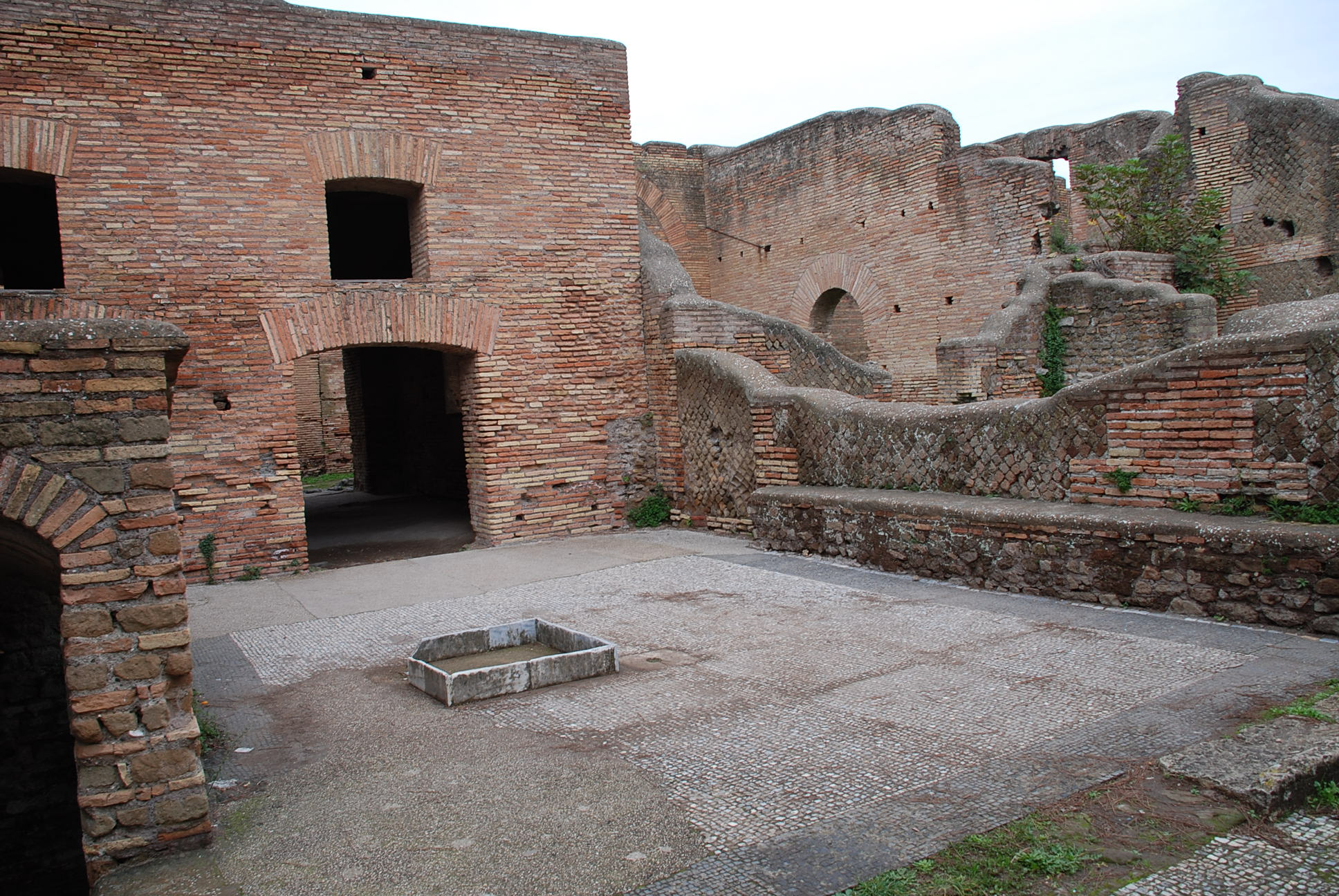 Ostia antica (archaeological site)